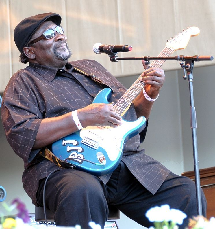 Blues musician Big Jack Johnson performing at the Chicago Blues Festival 2009. Location: Petrillo Shell Theater, Grant Park, Chicago, IL, USA